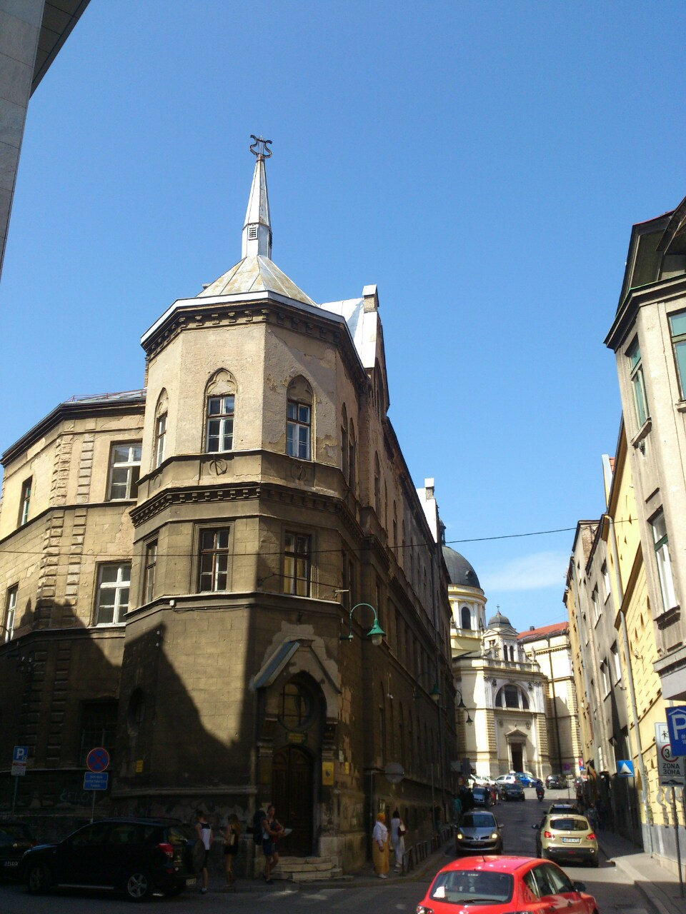 Photo of Muzička Akademija Univerziteta u Sarajevu